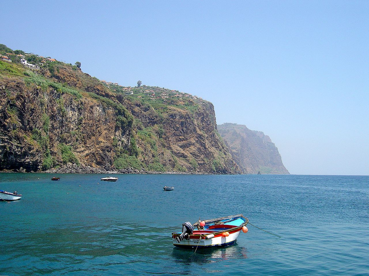 See where this picture was taken. [?]